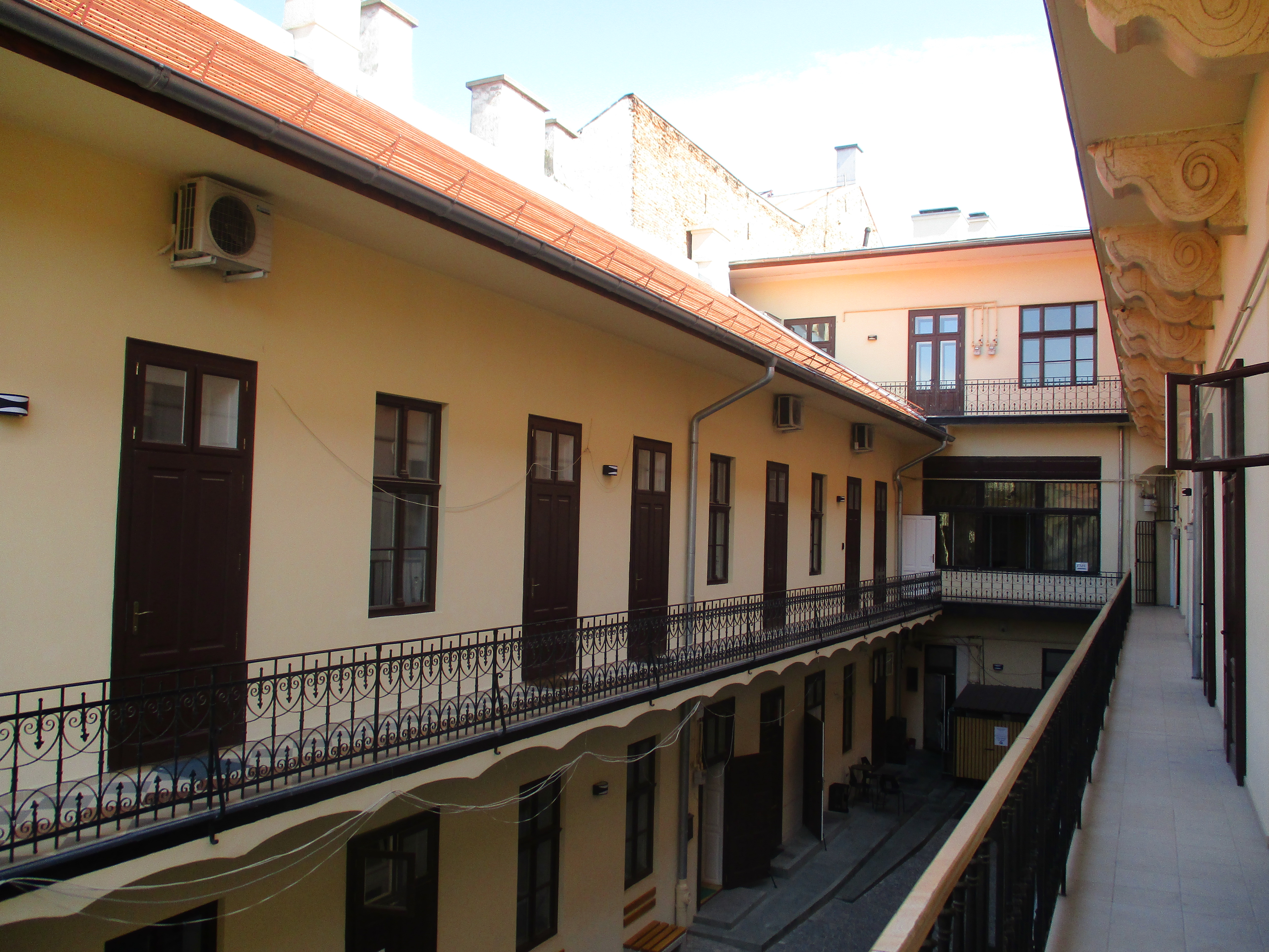 Courtyard view of the Rhédey Palace in Cluj